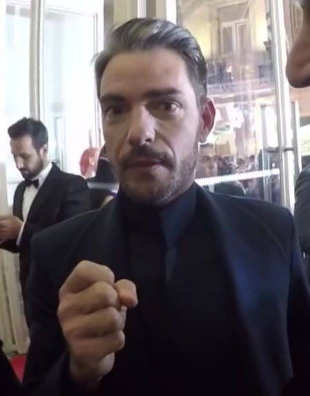 Cláudio Ramos (b. 1973), Portuguese TV presenter, in the Lisbon Coliseum during the XXII Portuguese Golden Globes, on 21 May 2017.